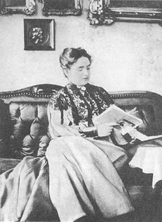 Anna Lesznai Hungarian writer (1885 – 1966)